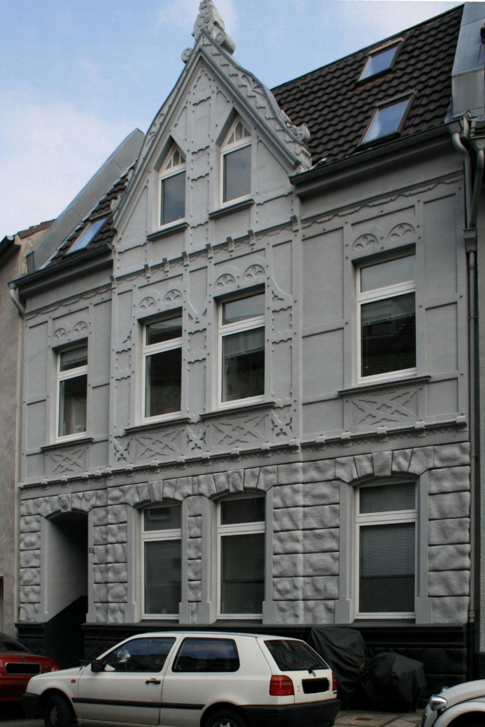 Cultural heritage monument No. M 045 in Mönchengladbach